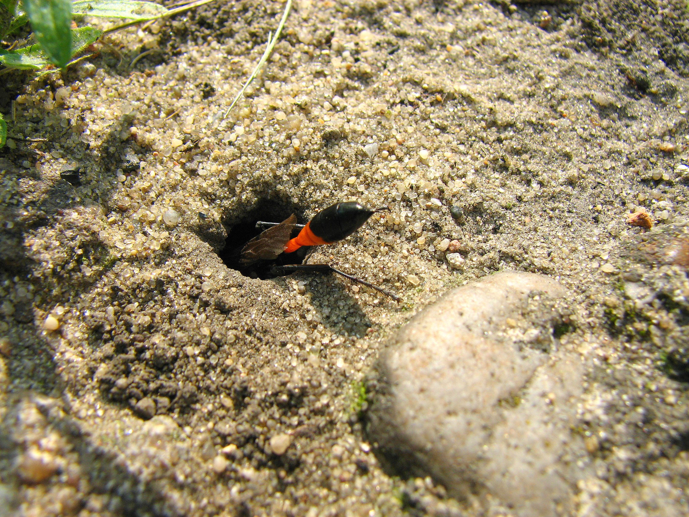 Sphecidae Thread-waisted wasp Central Europe